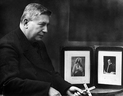 Mateo Cravley-Boevey